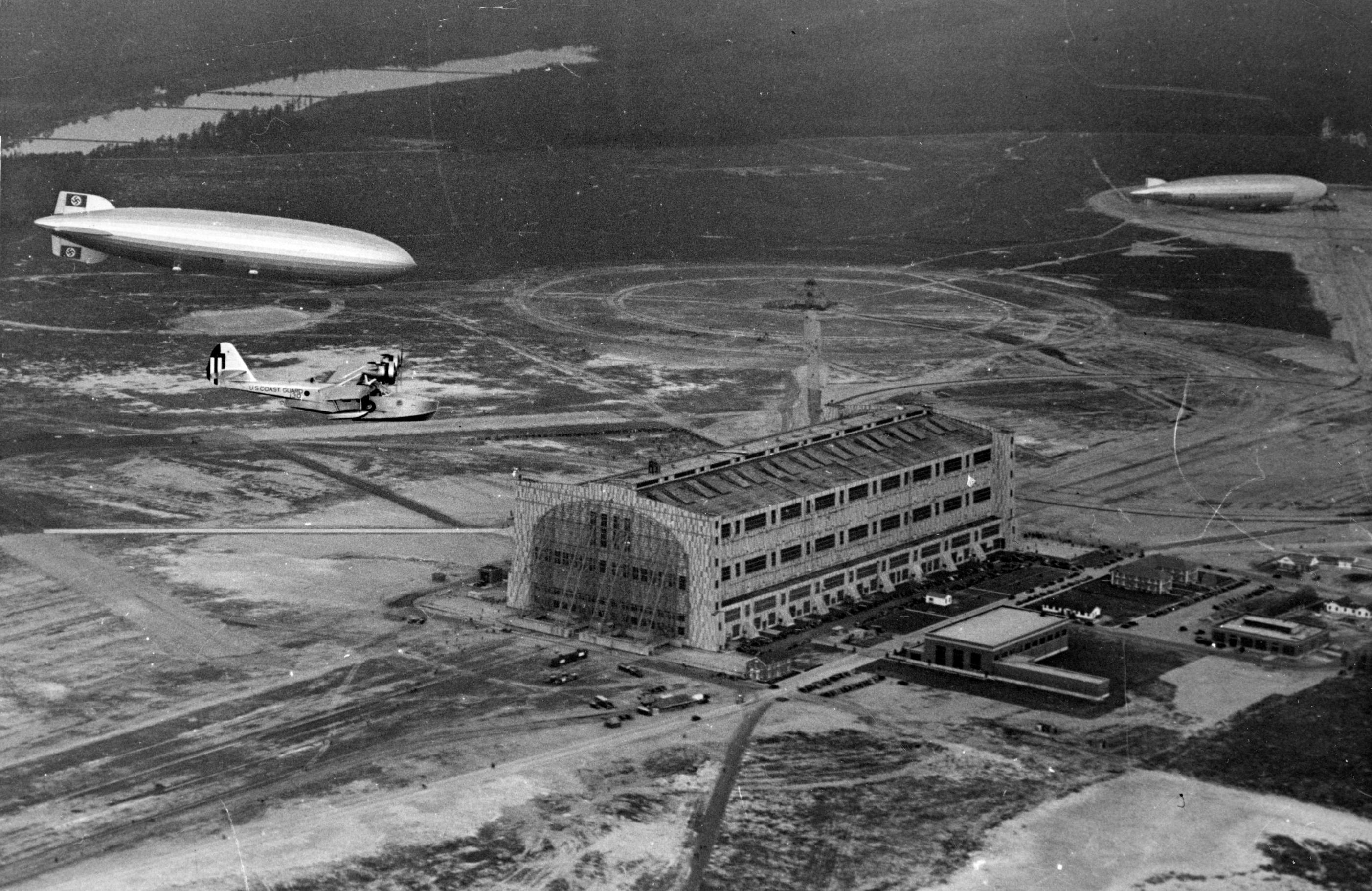 The U.S. Coast Guard Douglas RD-4 Spica (s/n V-125) escorts the German Zeppelin LZ 129 Hindenburg on arrival at Lakehurst, New Jersey (USA), after its inaugural flight from Friedrichshafen, Germany, on the early morning of 9 May 1936. The decommissioned U.S. Navy airship USS Los Angeles (ZR-3) is visible in the background.